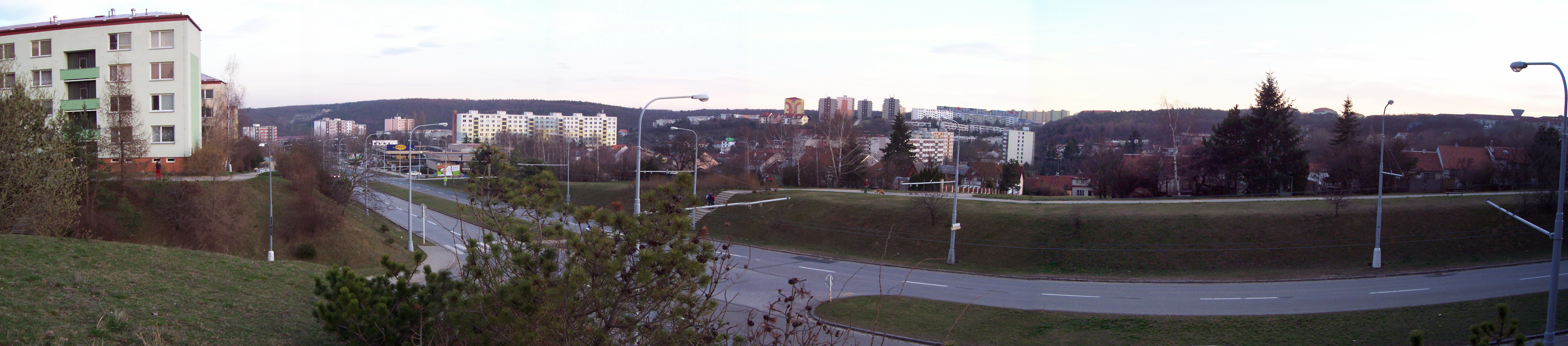 Panorama of Brno-Kohoutovice